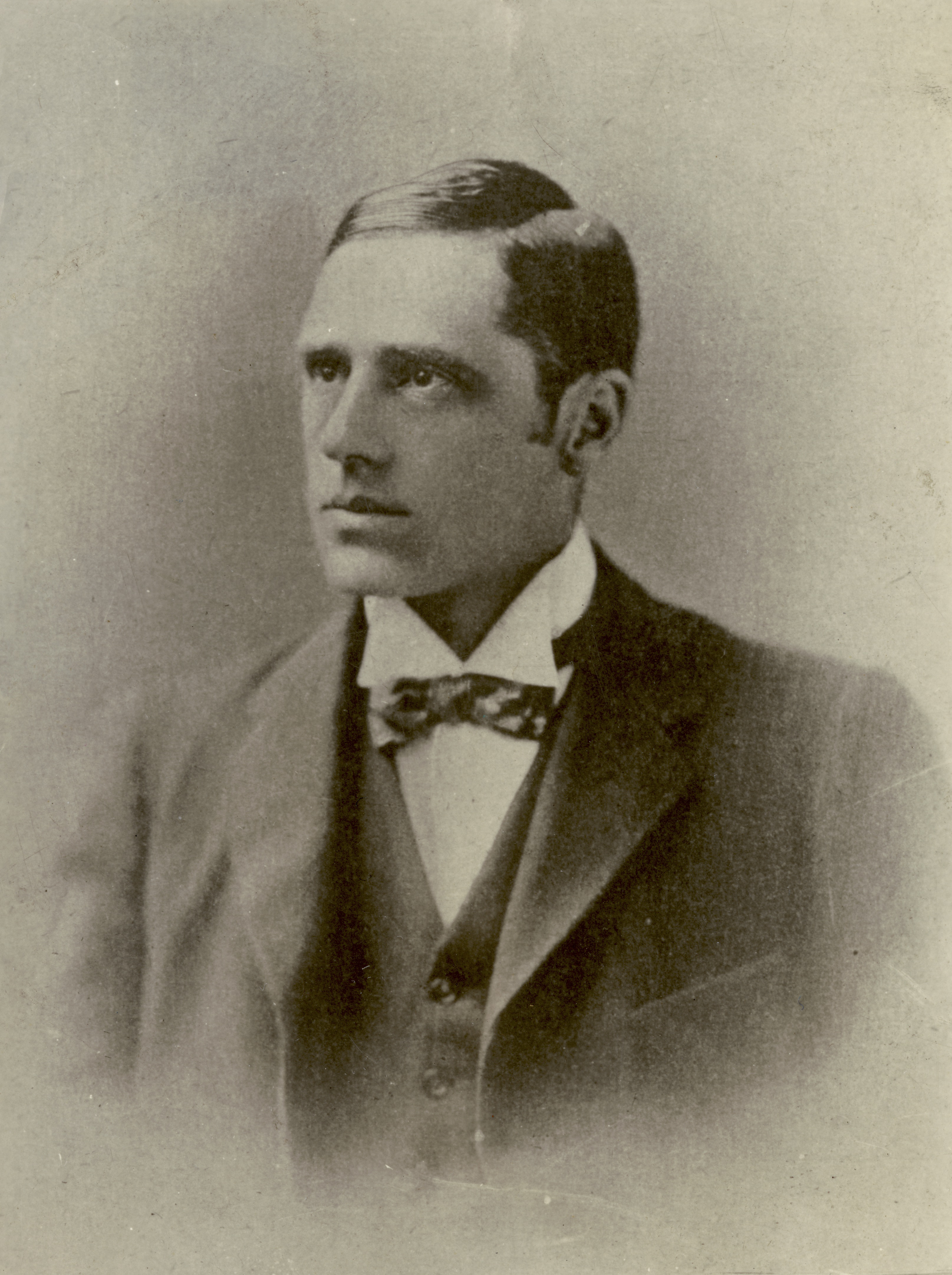 Australian poet Banjo Patterson